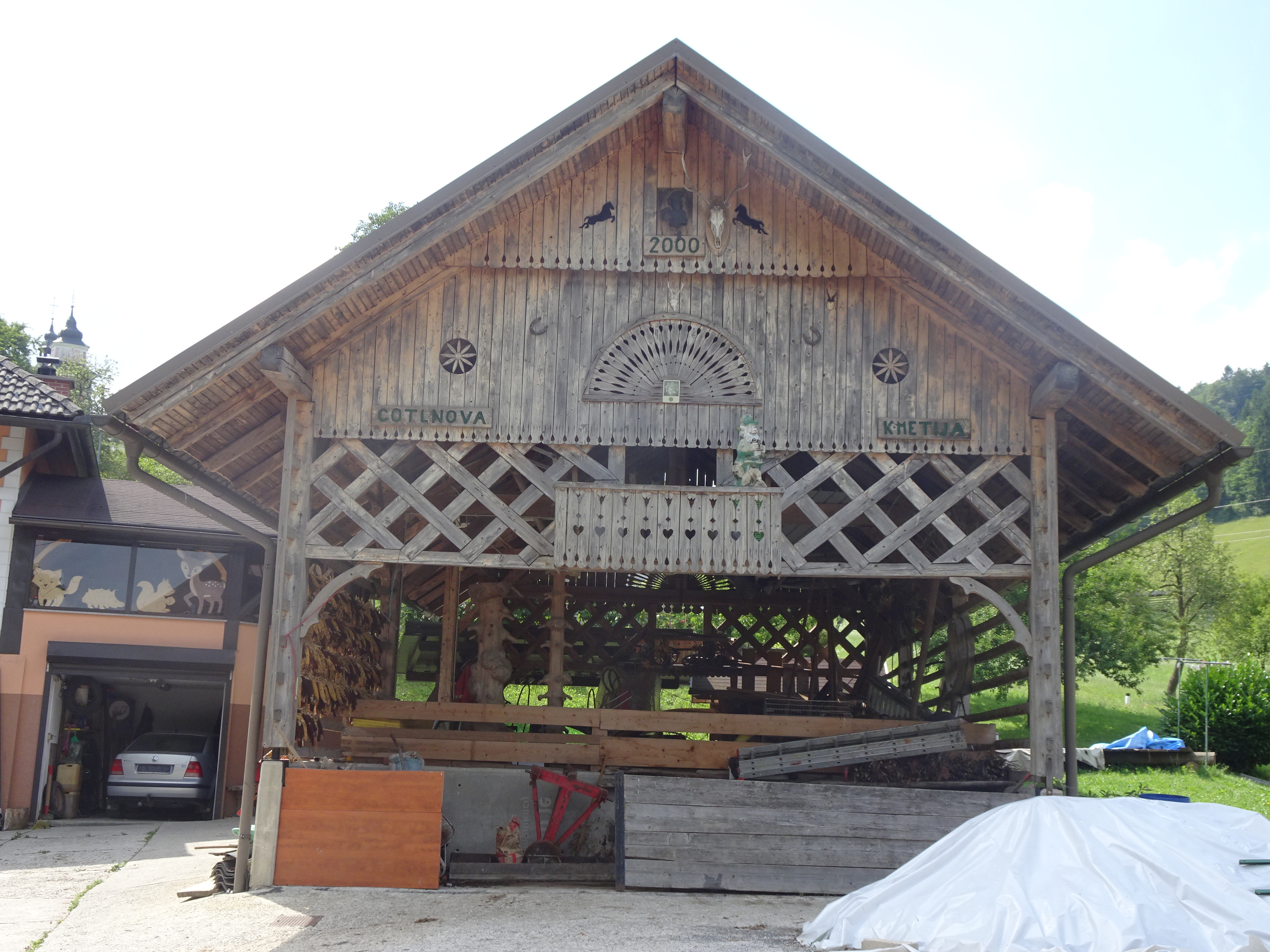 Roofed double hayrack